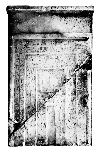 Stele of Anpuemhat, an ancient egyptian priest who was responsible for the cult of the pyramids of Teti (6th dynasty) and Merikare (9th-10th dynasty). The cartouches of both pharaohs are still visible (see note). Found in a tomb in Saqqara, datable to the 11th-12th dynasty, Middle Kingdom. 1.56m x 0.96m.